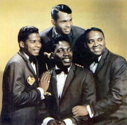 Trade ad for The Drifters' single "Saturday Night At The Movies".To better adapt it to his respective Wikipedia article, the ad was cropped and cleaned in a graphics editing program. The original can be viewed at the source below.